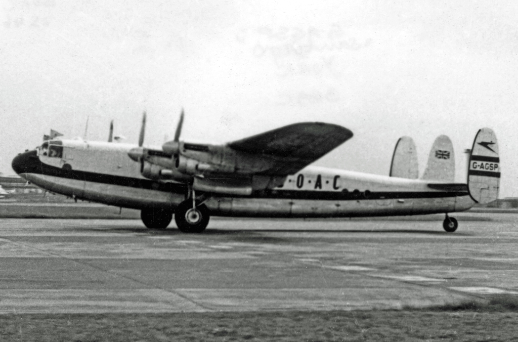 Avro 685 York G-AGSP of BOAC operating a freight schedule in 1953